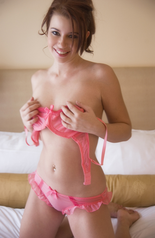 American pornographic actress Sarah Blake.